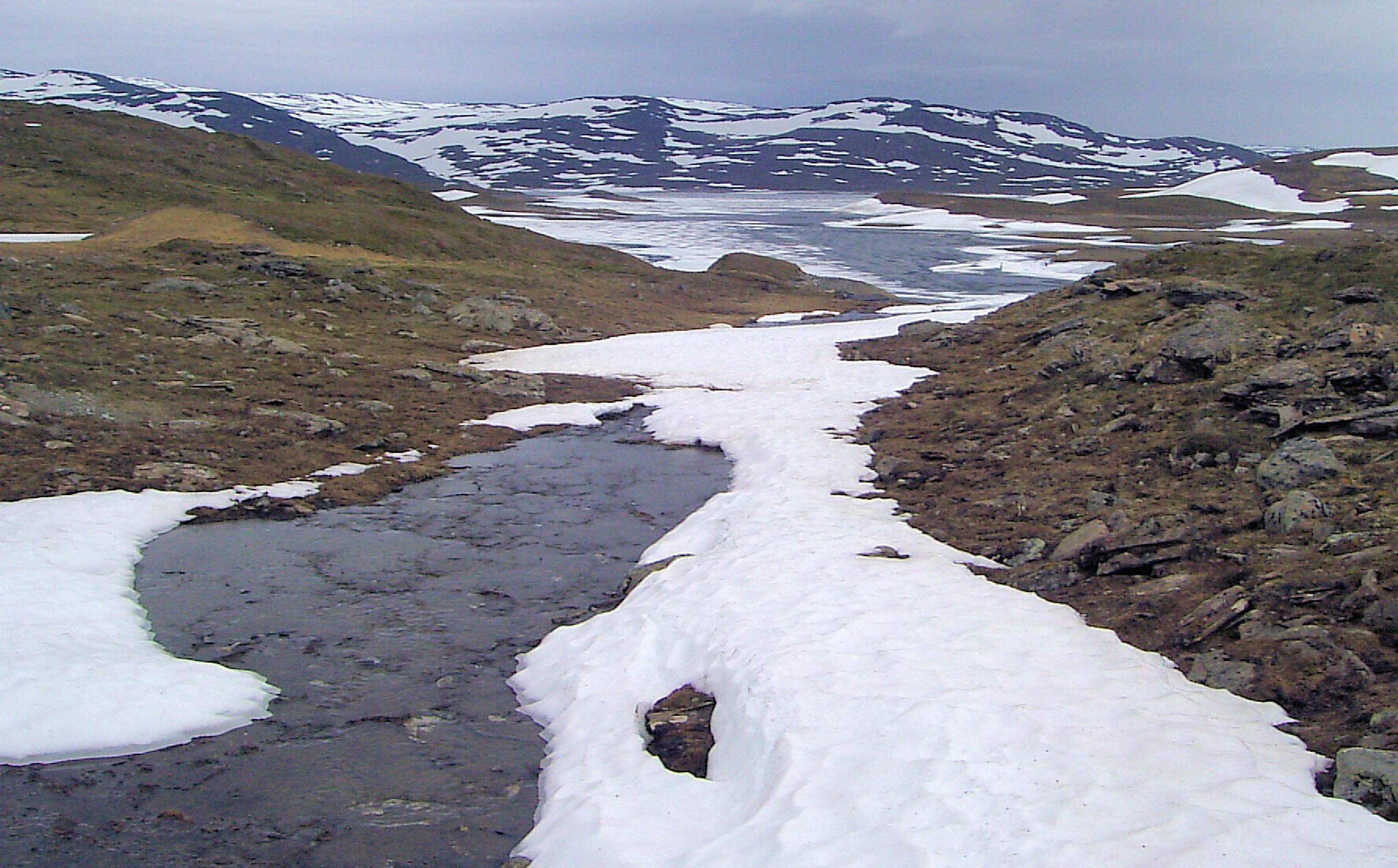 Guolasjávri, Lake of Troms, Norway